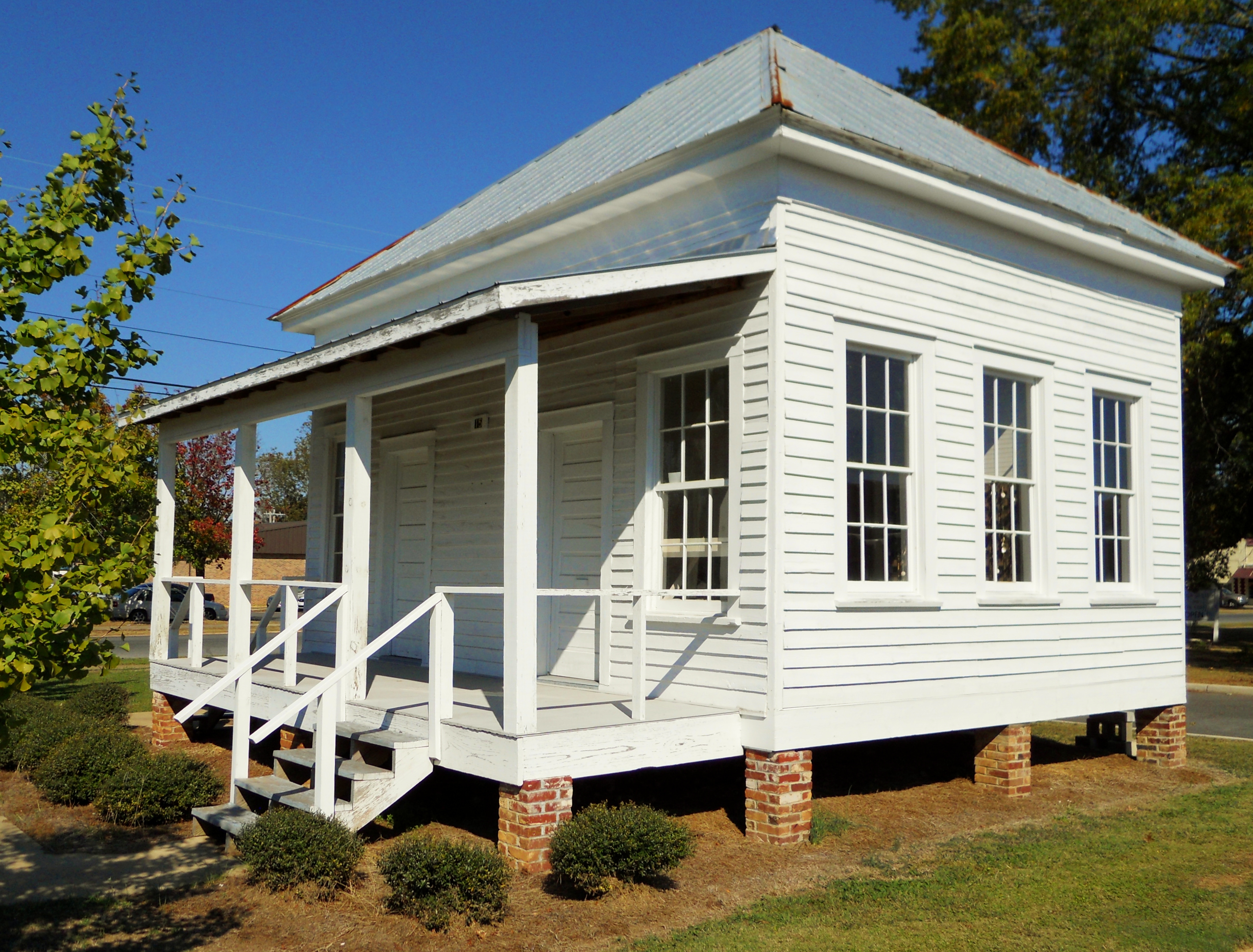 This is a photograph of the Gannts Quarry Post Office which was renovated after being moved to its current location in Sylacauga, AL.